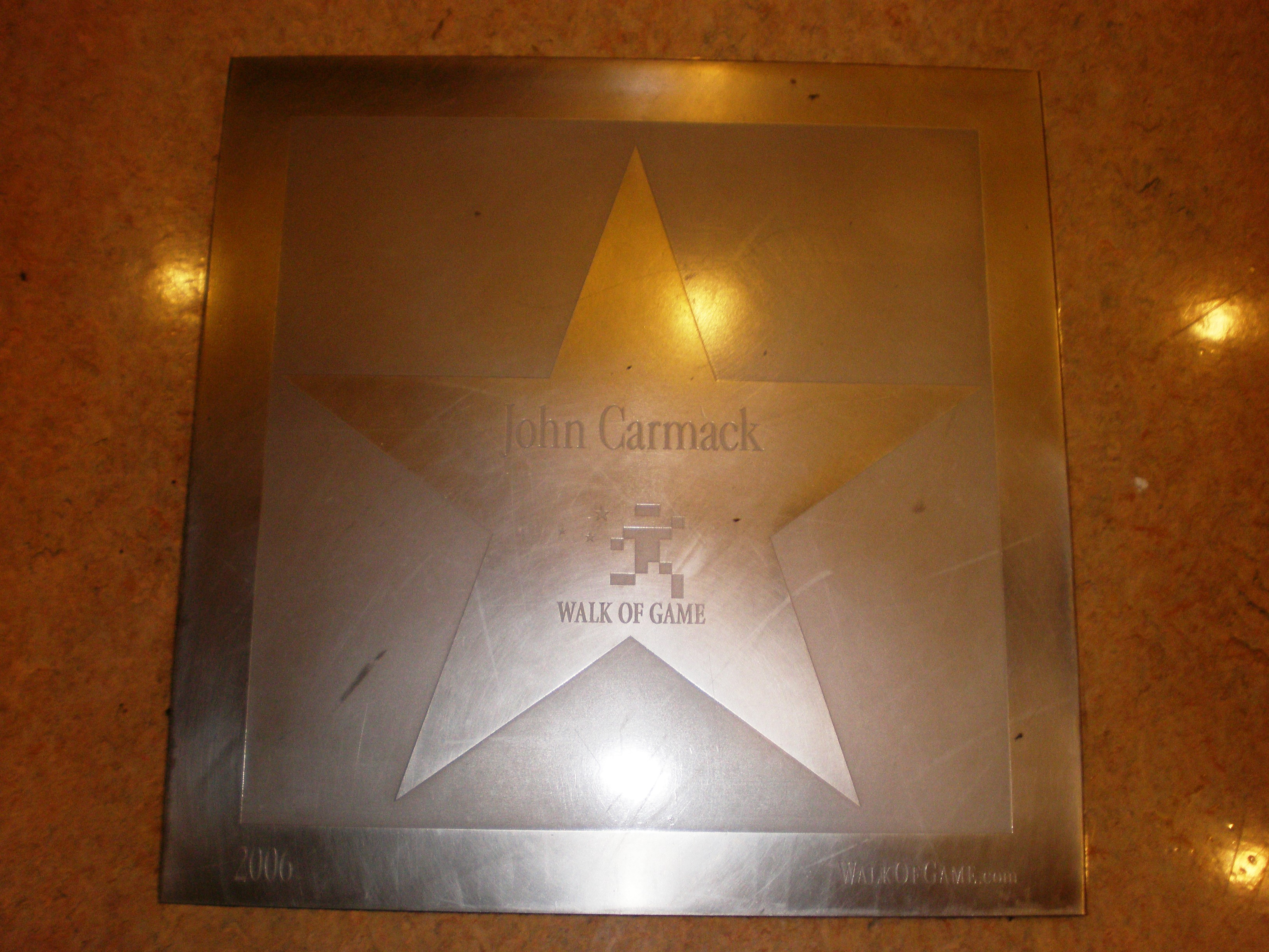 The star for John Carmack at the Walk of Game in the Metreon in San Francisco, California.